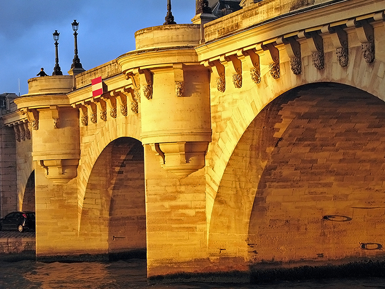 As artists have discovered for centuries the light in Paris at sunset is almost unreal. View On Black This is the Pont Neuf in Paris - the oldest bridge in the city. This was a quick photo as we were strolling the Seine. It rained the first few days of the trip but every night at about 7pm the skies partially cleared. By sunset at 9:30pm there was always a beautiful balance of dark storm clouds and clear areas for the golden glow to come through. All I did in photoshop was sharpen it up a bit - this is the natural coloring - no enhancing or saturating needed with Parisian sunsets.